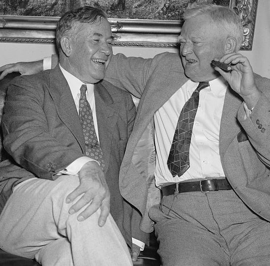 Kentucky Senator Alben Barkley meets with U.S. Vice President John Garner after Barkley's election as Senate Majority Leader